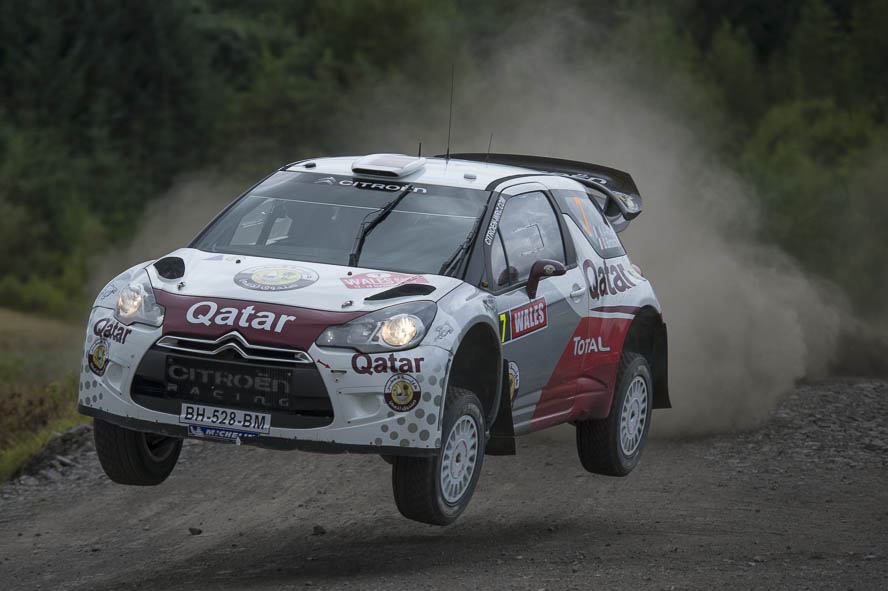 Wales Rally Great Britain 2012 Citroen DS3 WRC,Motorsport,Nasser Al Attiyah,Nasser Al-Attiyah,Qatar WRT,Qatar World Rally Team,Qualifying,Rally,Rallye,WRC,Wales Rally GB,Walters Arena